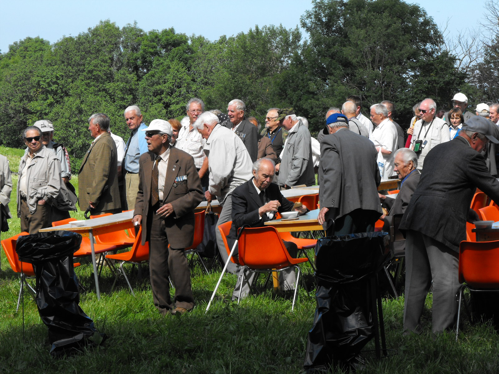 Memorial service on the 65th anniversary of the battles on the Sinimäed hills in 1944, where a number of veterans attended including including members of the W:20th Waffen Grenadier Division of the SS (1st Estonian).